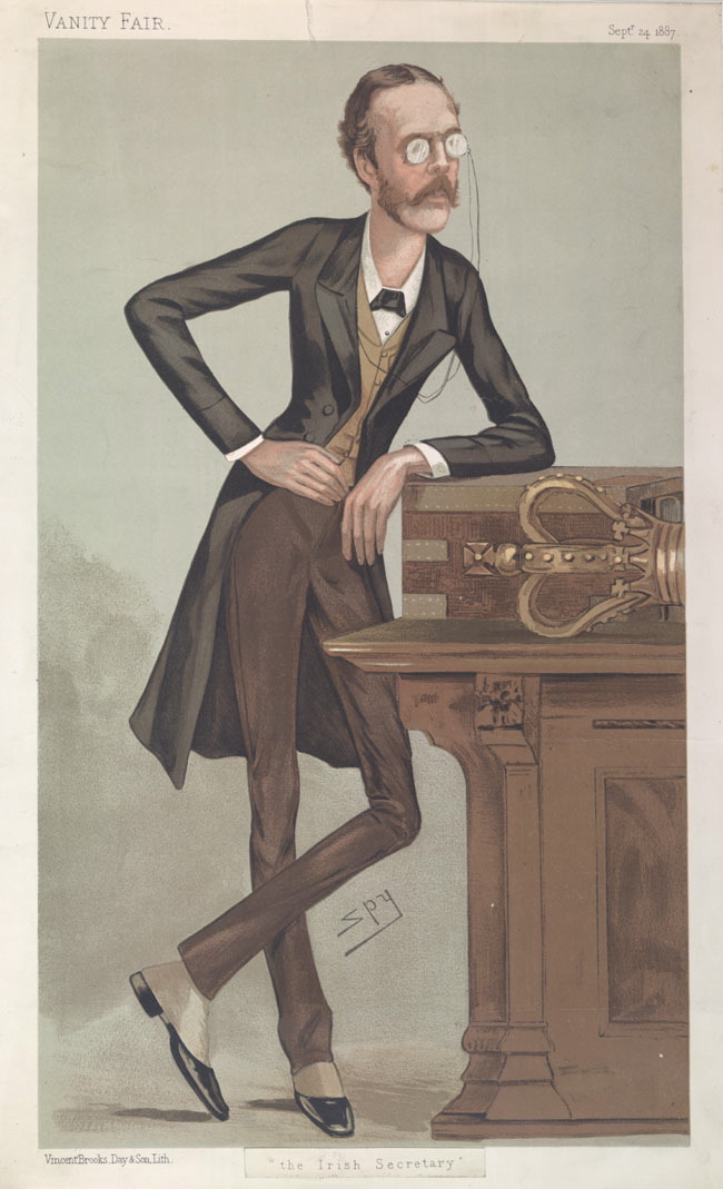 Statesmen No.529: Caricature of The Rt Hon A Balfour PC LLD MP. Caption reads: "the Irish Secretary"